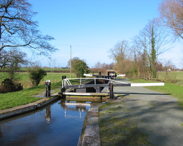 Baddiley no. 1 lock, Cheshire